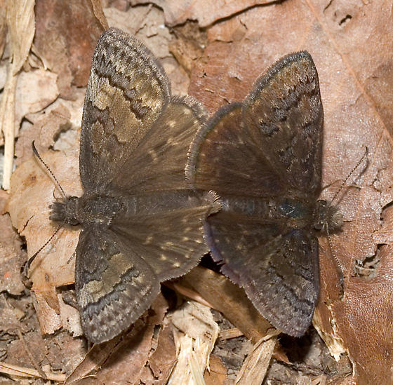 Erynnis brizo mating. Paris Mountain State Park, Greenville County, South Carolina, USA